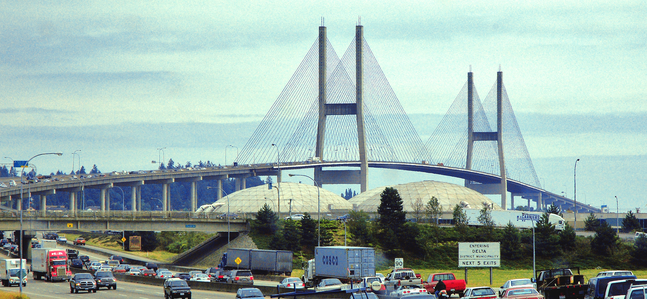 Brightened-up version of Image:Alex Fraser Bridge.jpg